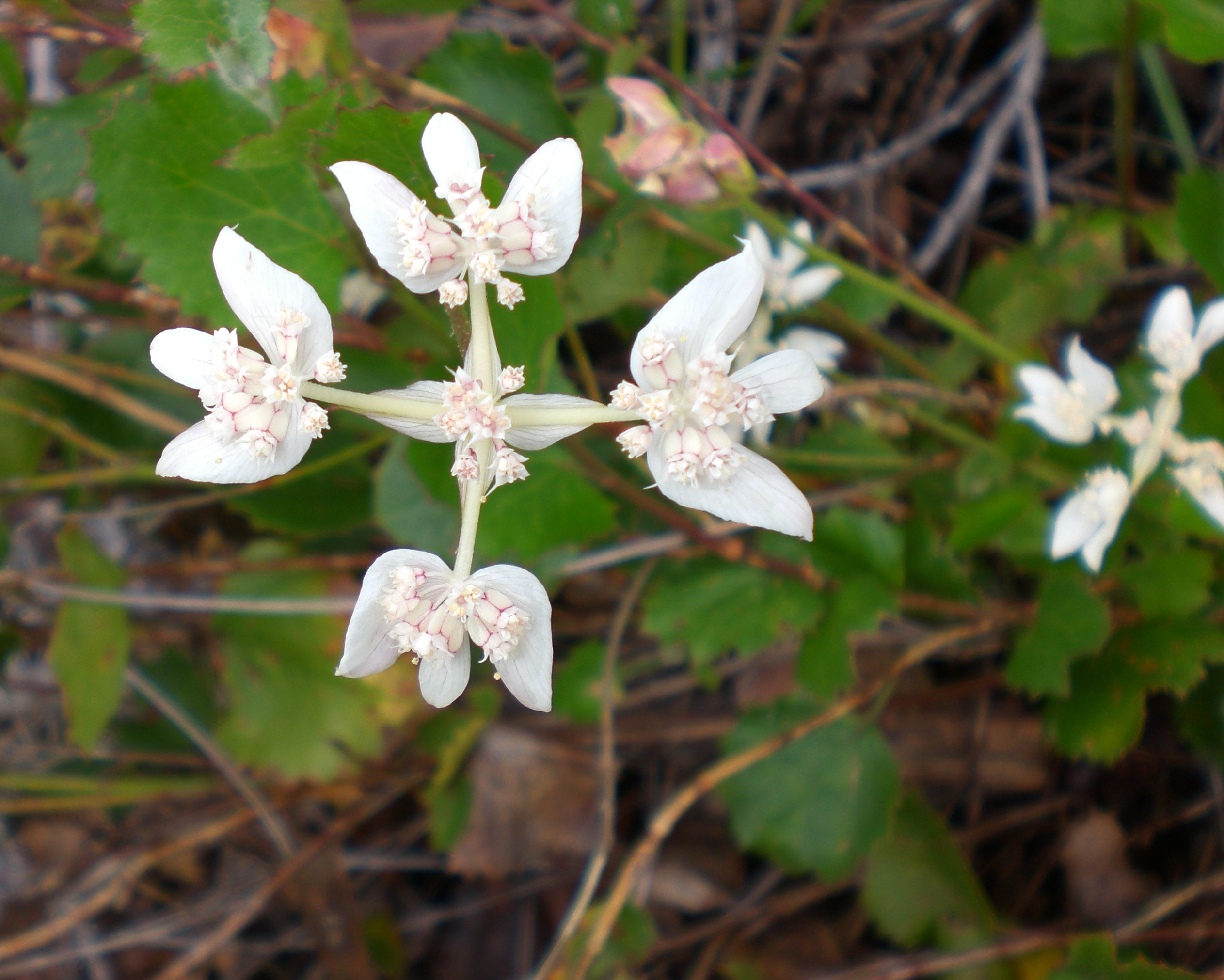 The flower of Xanthosia rotundifolia, occurring near Torndirrup National Park. The species is informally referred to as Southern Cross.